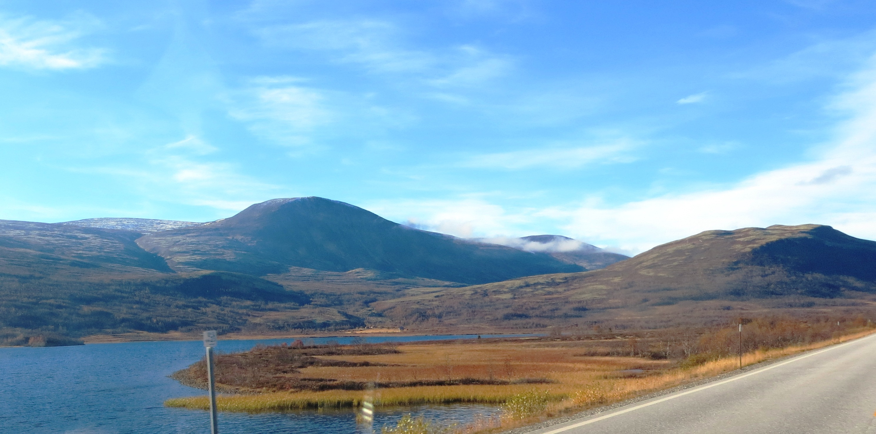 Image from Dovre municipality, Oppland county (Norway).